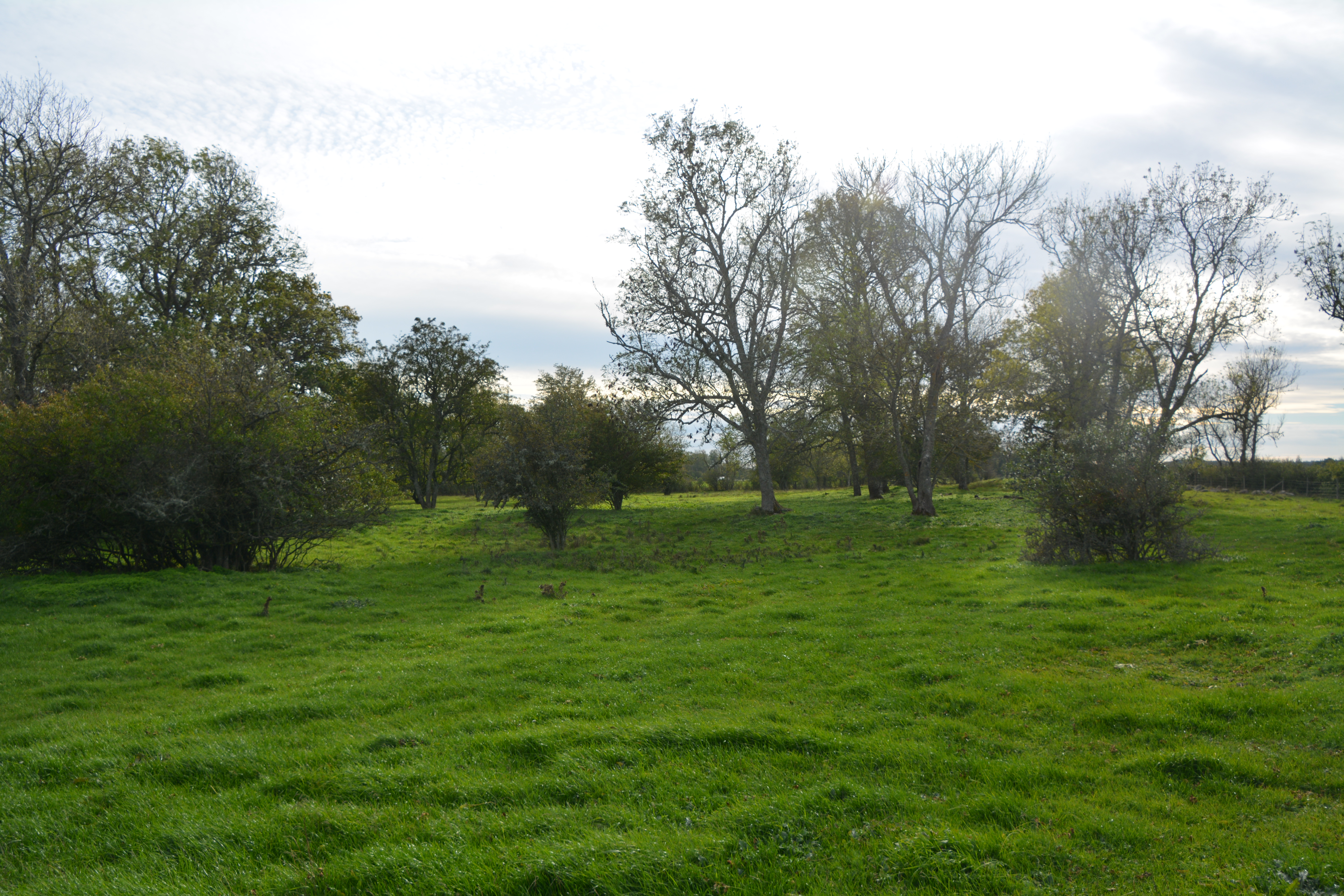 Allkvie änge, nature preservation area at Gotland in Sweden